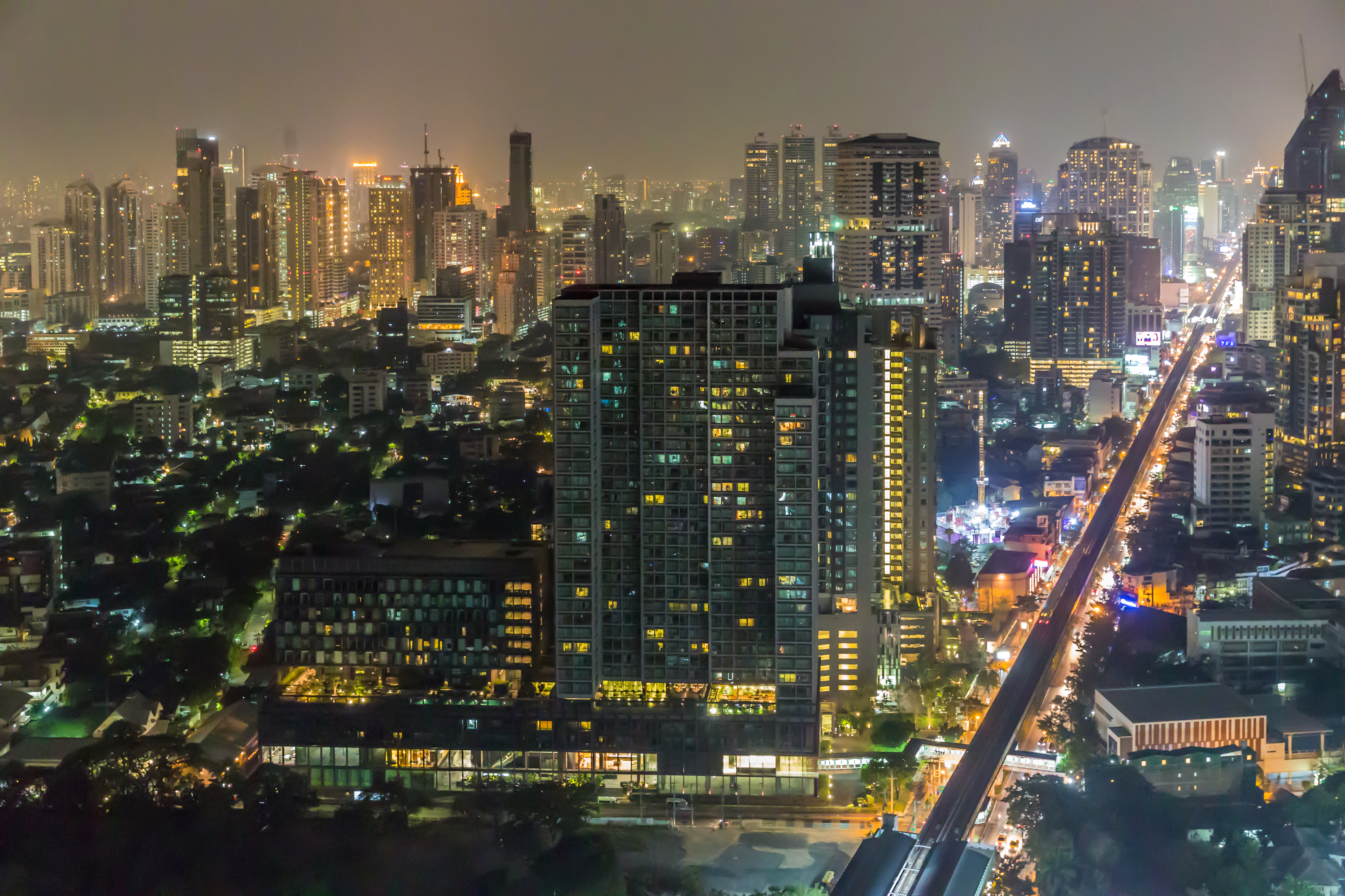 Bangkok, Thailand View from Marriott Octave Rooftop Lounge & Bar